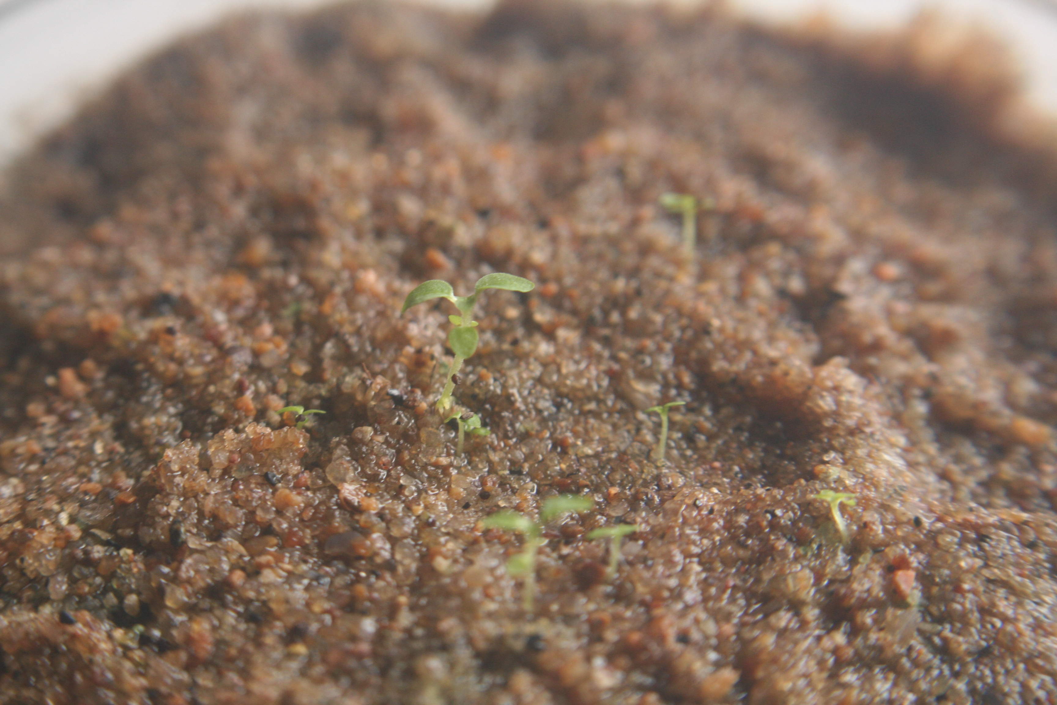 Close up view of seedlings raised from seeds of eucalyptus